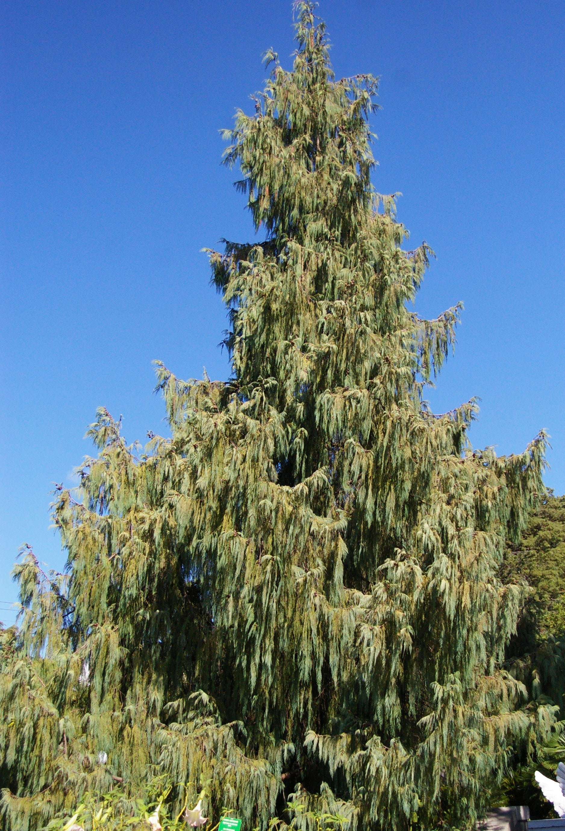 Cupressus Cashmeriana, Sochi, Russia